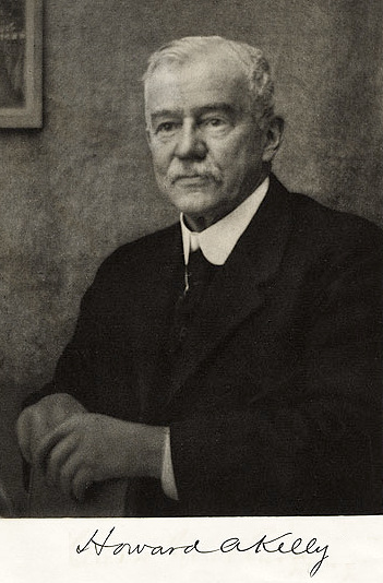 Howard Atwood Kelly (February 20, 1858 – January 12, 1943)